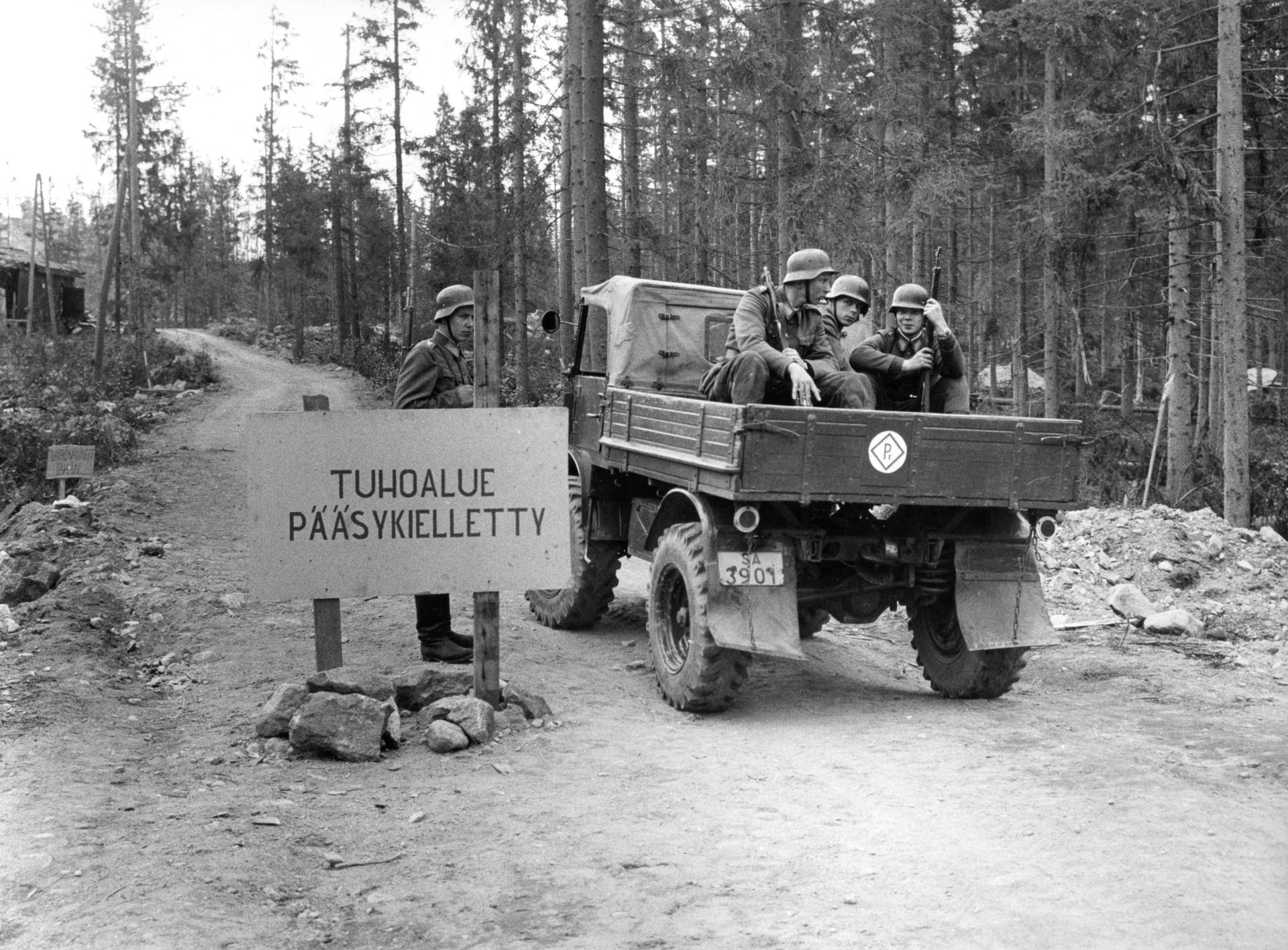 Photograph of Finnish conscripts guarding the Terrikallio explosion area.